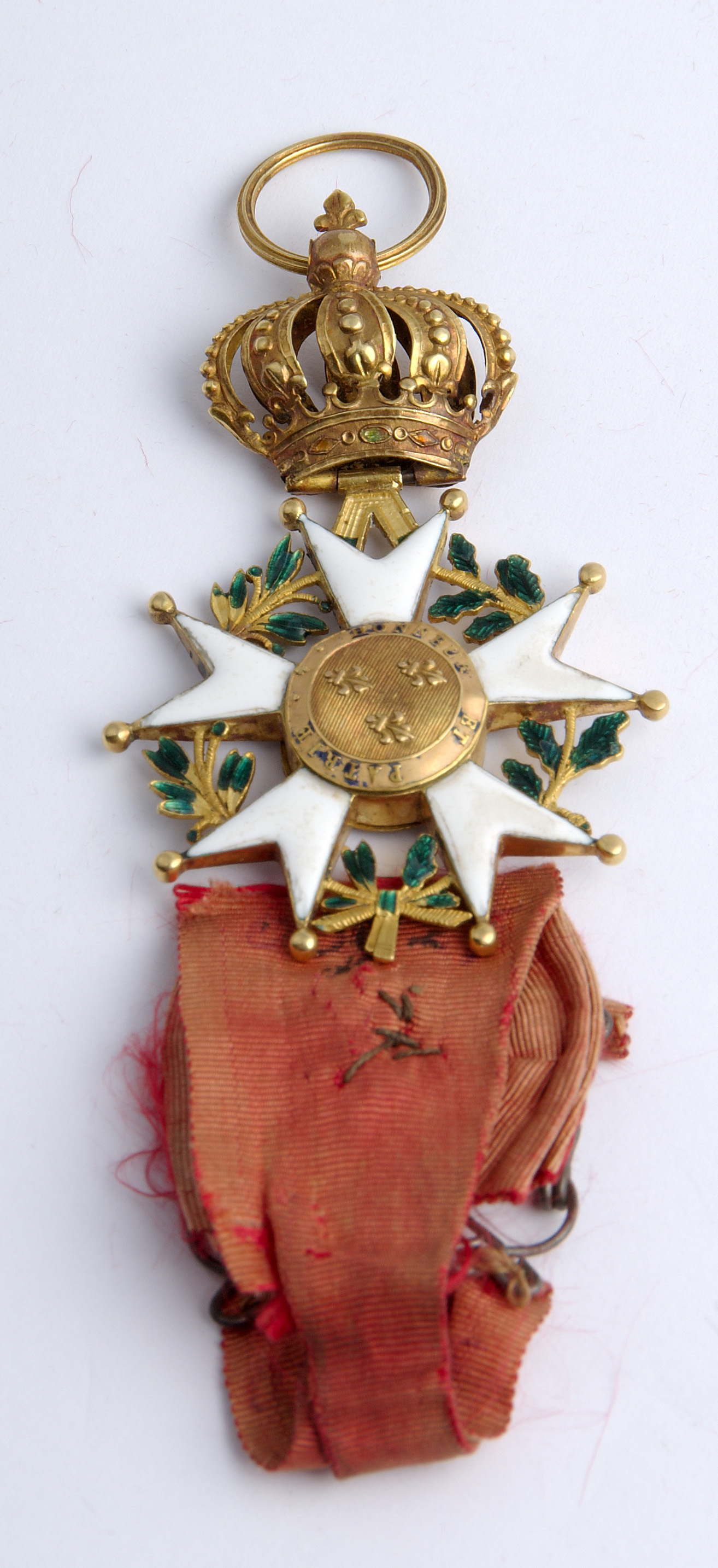 Order of chivalry, on a red fabric ribbon, awarded to General Chassé, 1830-1832. The medal consists of a white, five-pointed cross. The points are connected to each other with green enameled laurel branches. The centre of the cross has a depiction on each side. One side shows an illustration of a field with three French lilies with the text: Honneur et Patrie, around it. The other side has a portrait in profile of a laurelled man with an aureole with the text: Henri IV Roi de France et de Navarre. The text is in a worn down, blue enamel. The ring and the hinged, openwork crown connect the medal and the ribbon.